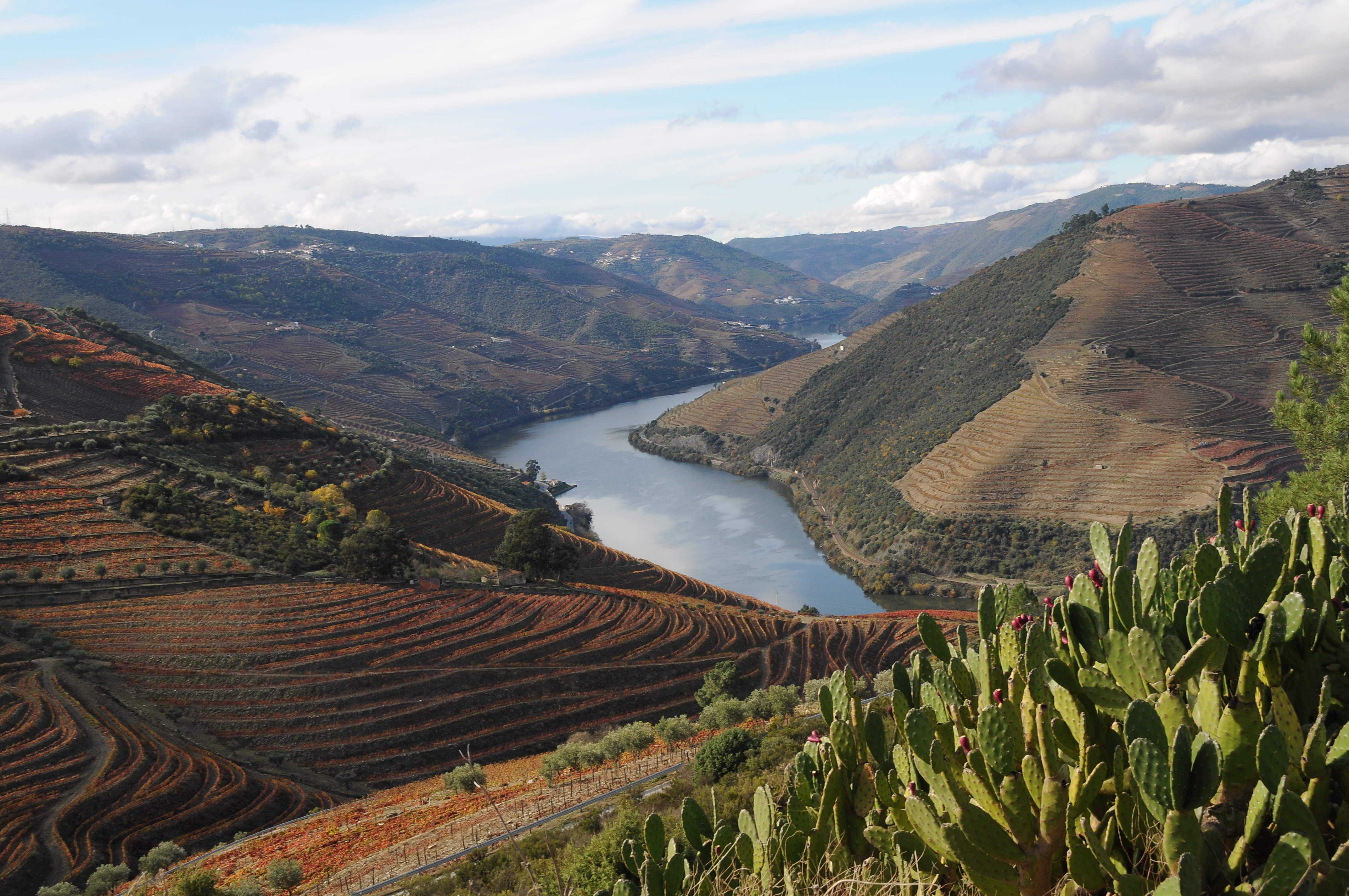 Landscape in Valença do Douro, Tabuaço, Portugal